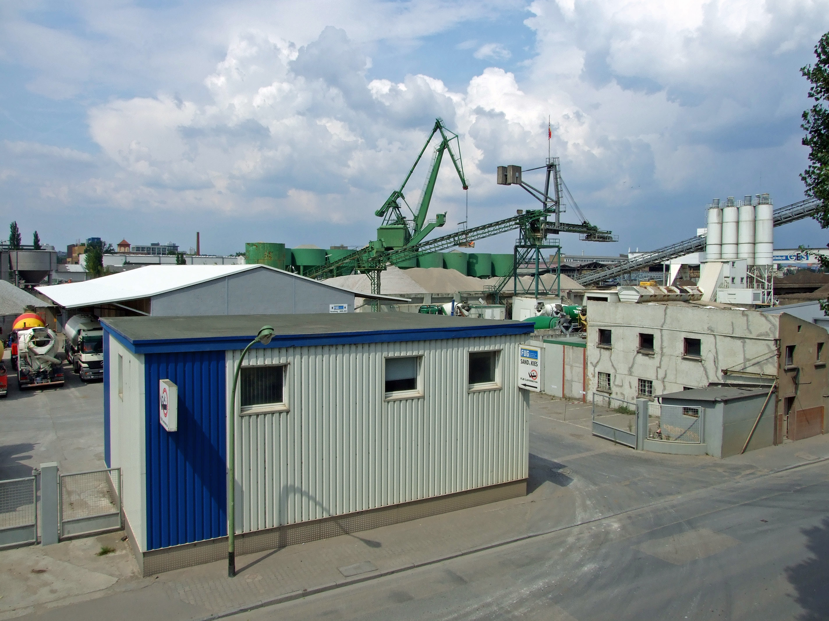 Concrete factory at Osthafen in Frankfurt am Main Ostend